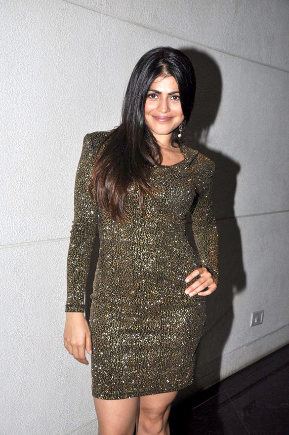 Shenaz Treasuryvala at Blackberry curve's launch party